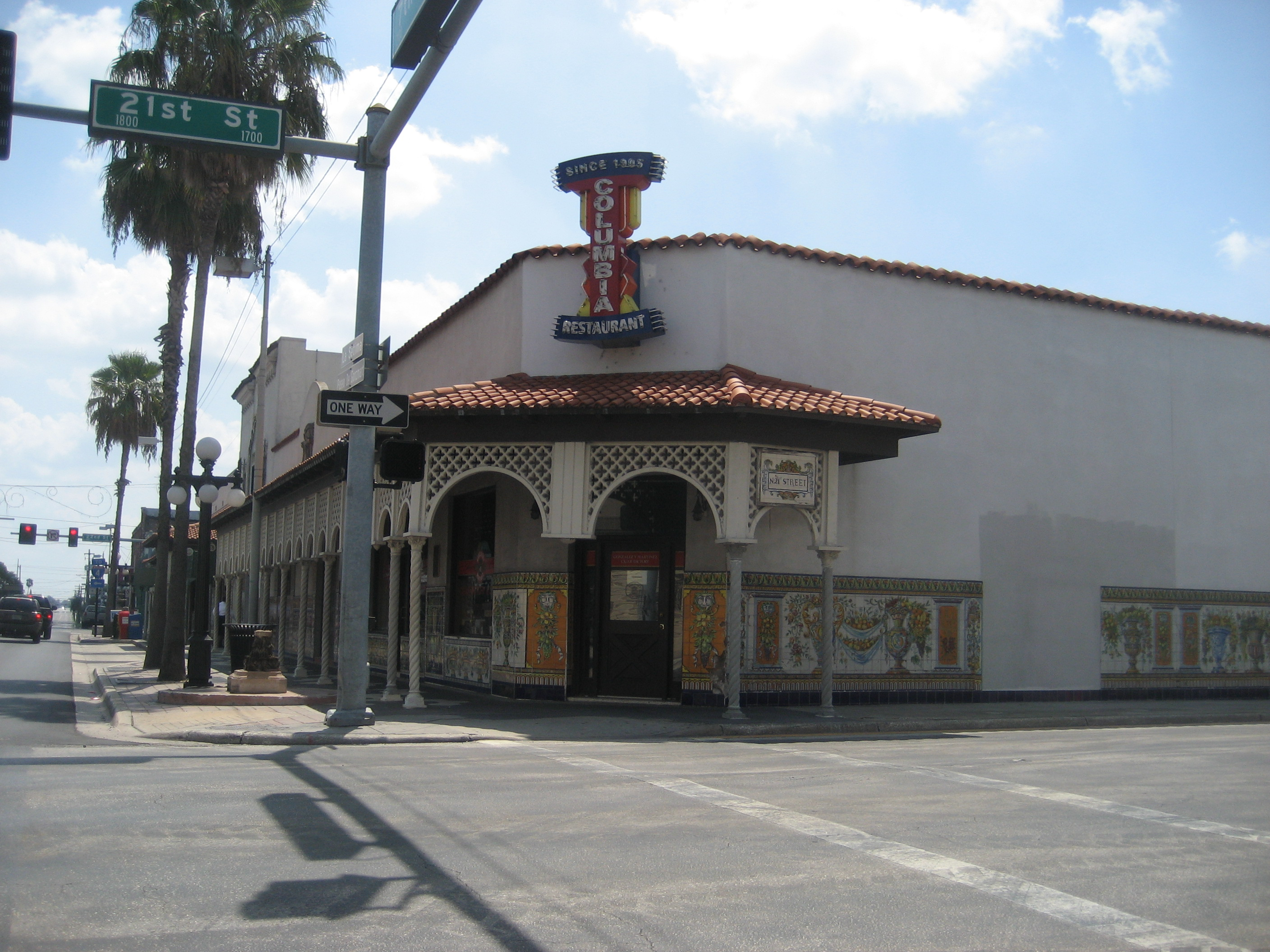 Columbia Restaurant, Ybor City section of Tampa Florida